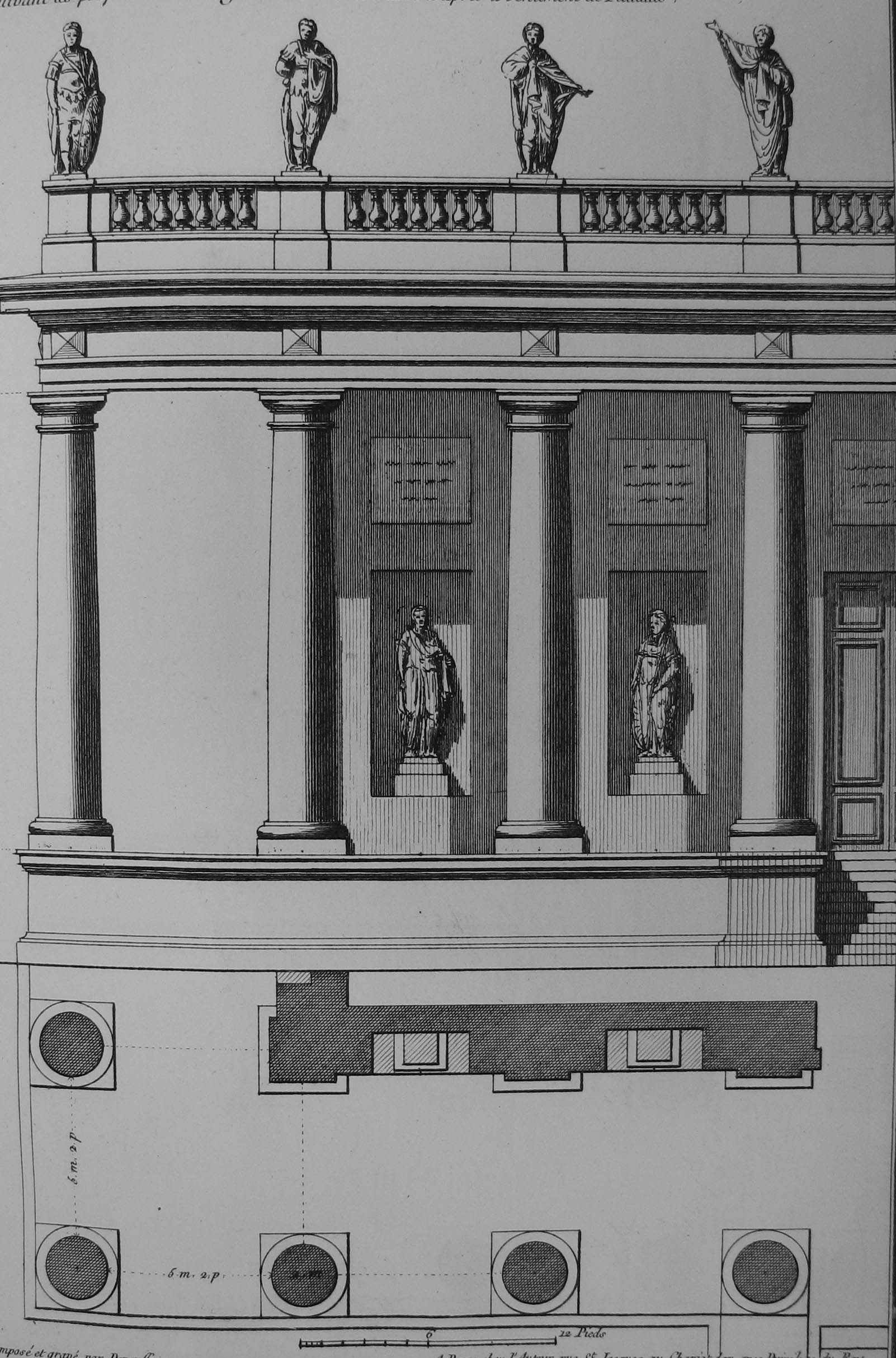 a tuscan portico